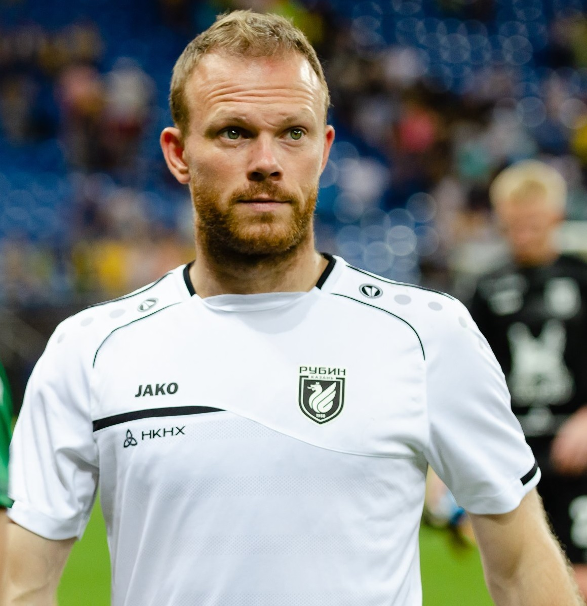 Vitaliy Denisov with FC Rubin Kazan after a game against FC Rostov.